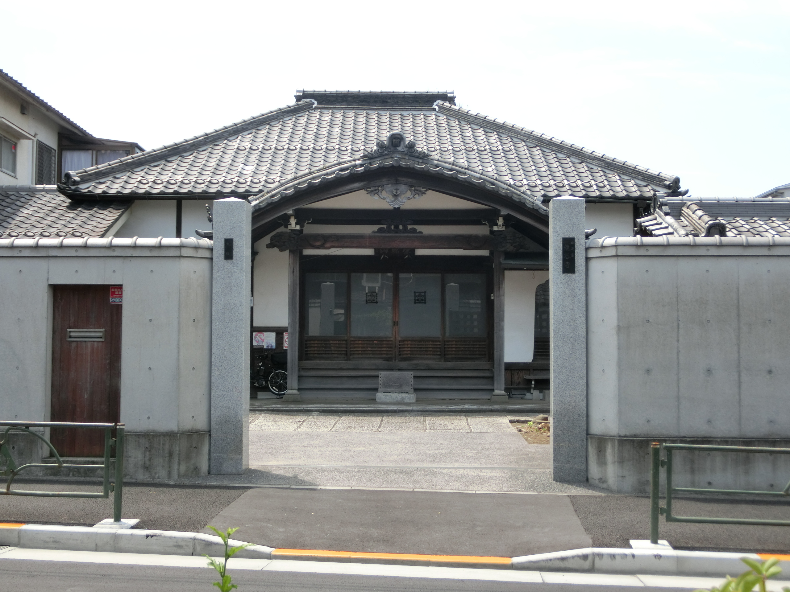 Ryukoku-ji (Taito)